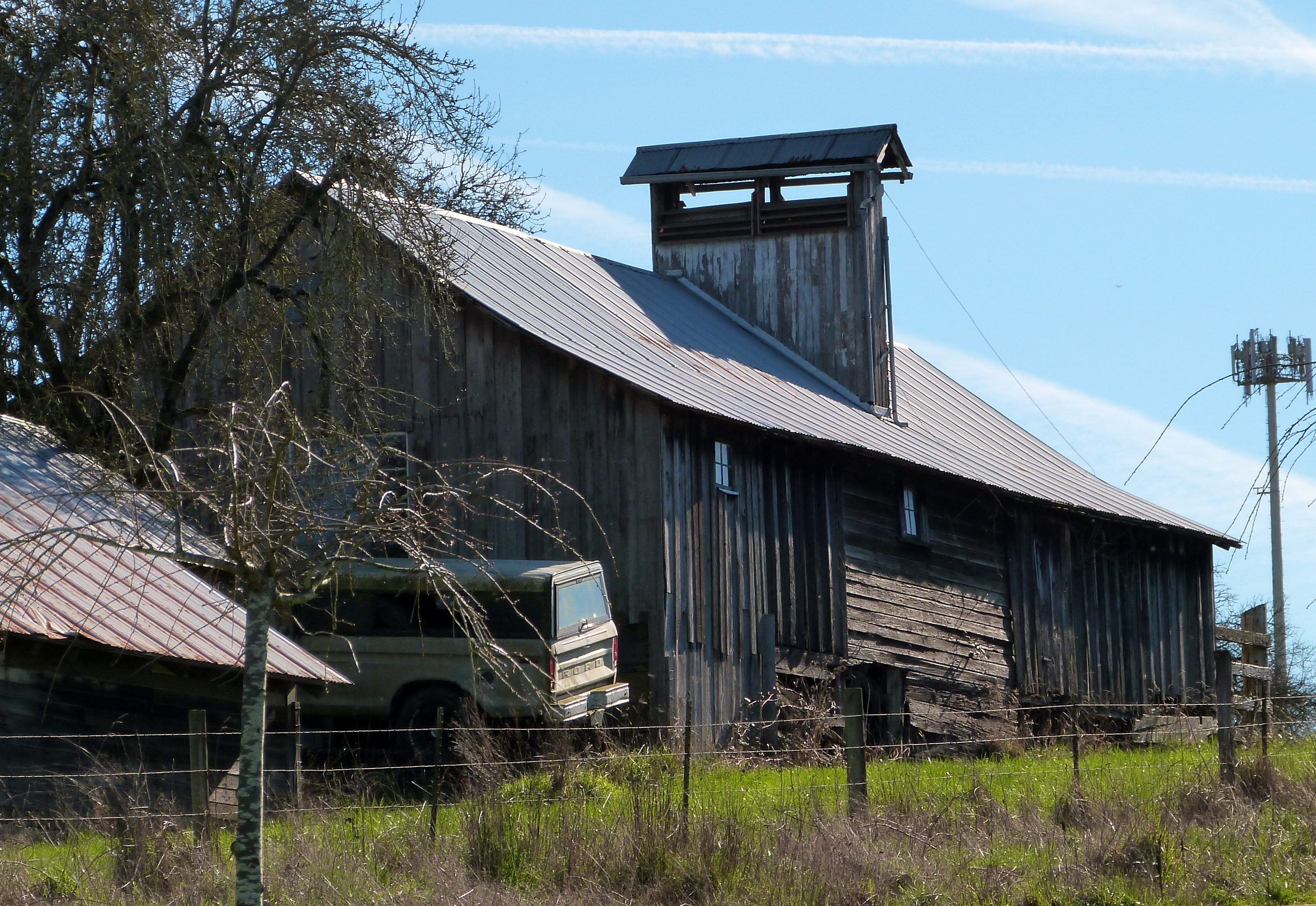 The historic Arndt Prune Dryer (built ca. 1898), located at 2109 Northwest 219th Street near Ridgefield, Washington, United States, is listed on the US National Register of Historic Places.